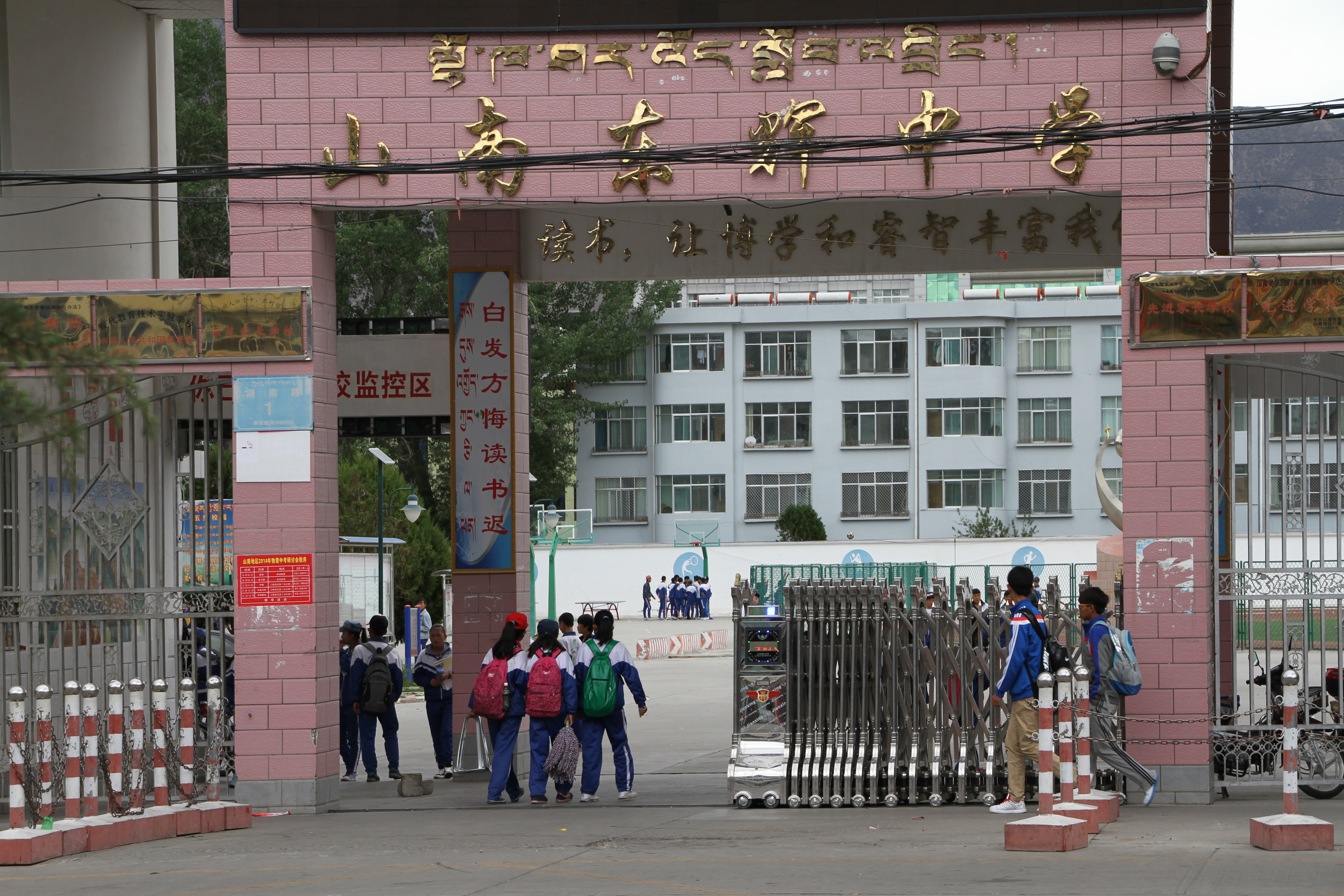 Tsetang, Nedong county, Shannon prefecture, in Tibet